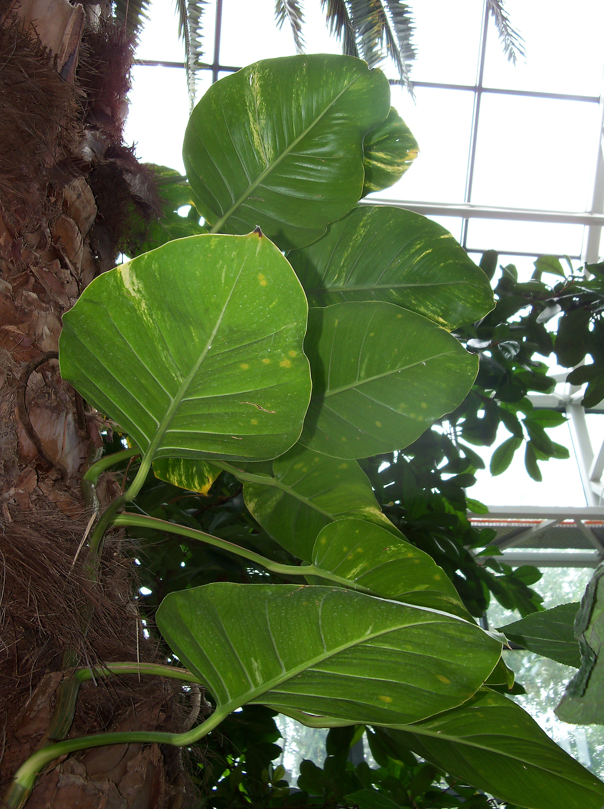 Epipremnum aureum